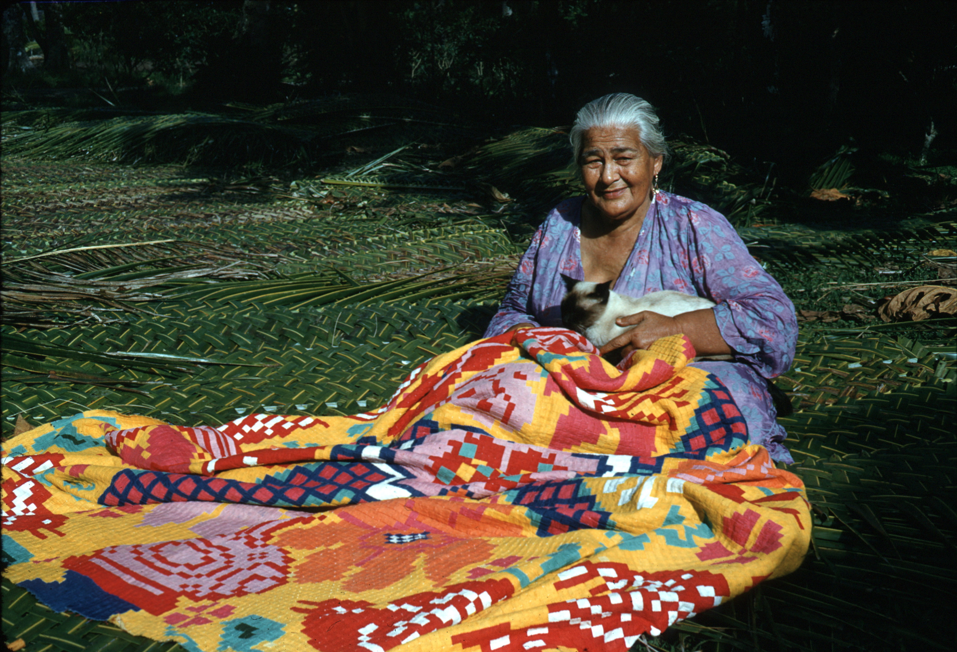 Woman sitting on a kikau (coconut frond mat) making a tivaevae (quilt). She has a siamese cat on her lap. Photograph taken on Rarotonga, Cook Islands.